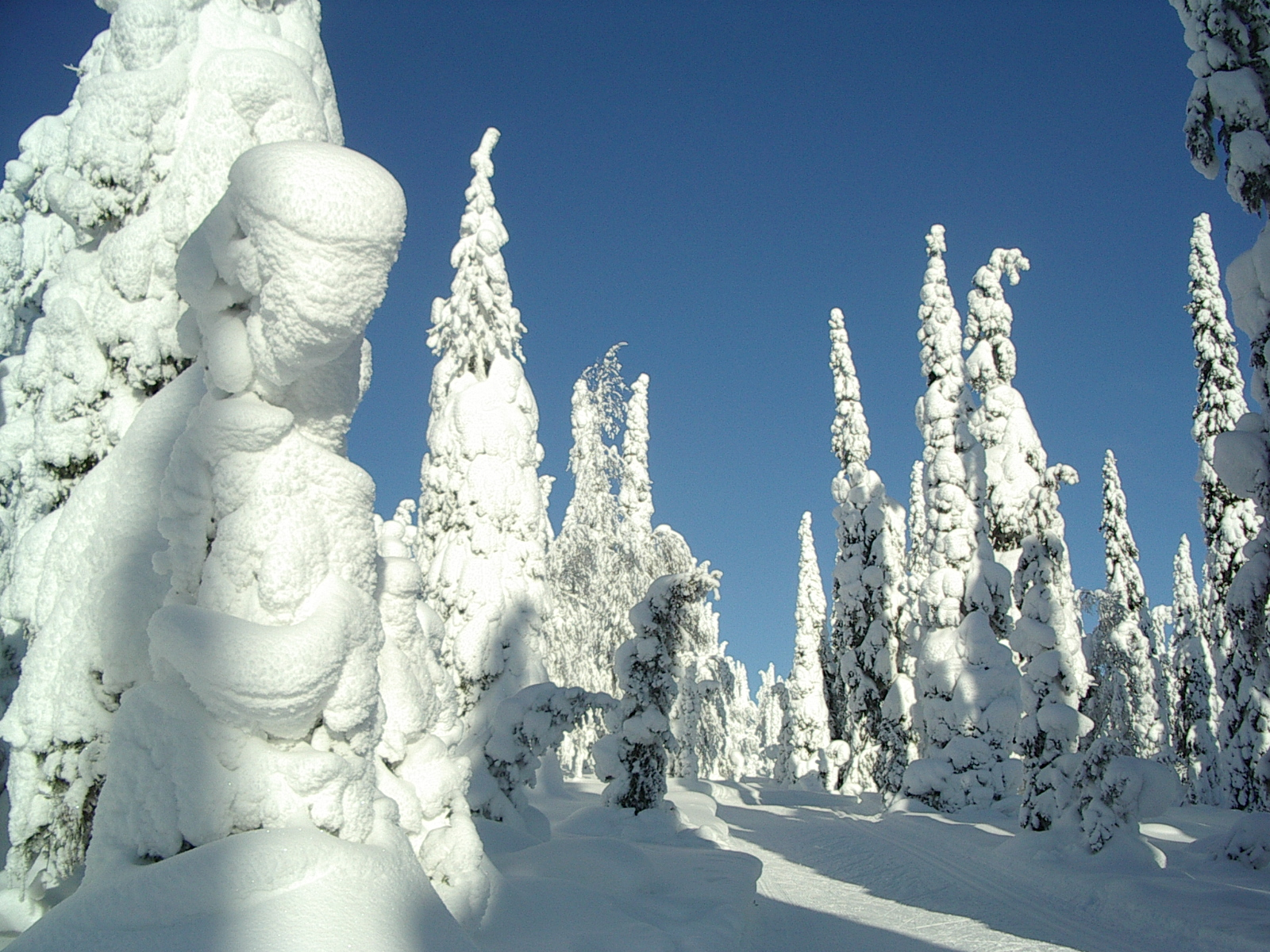 Snow-covered spruces (Picea abies) in Valtavaara, Kuusamo, Northern Finland